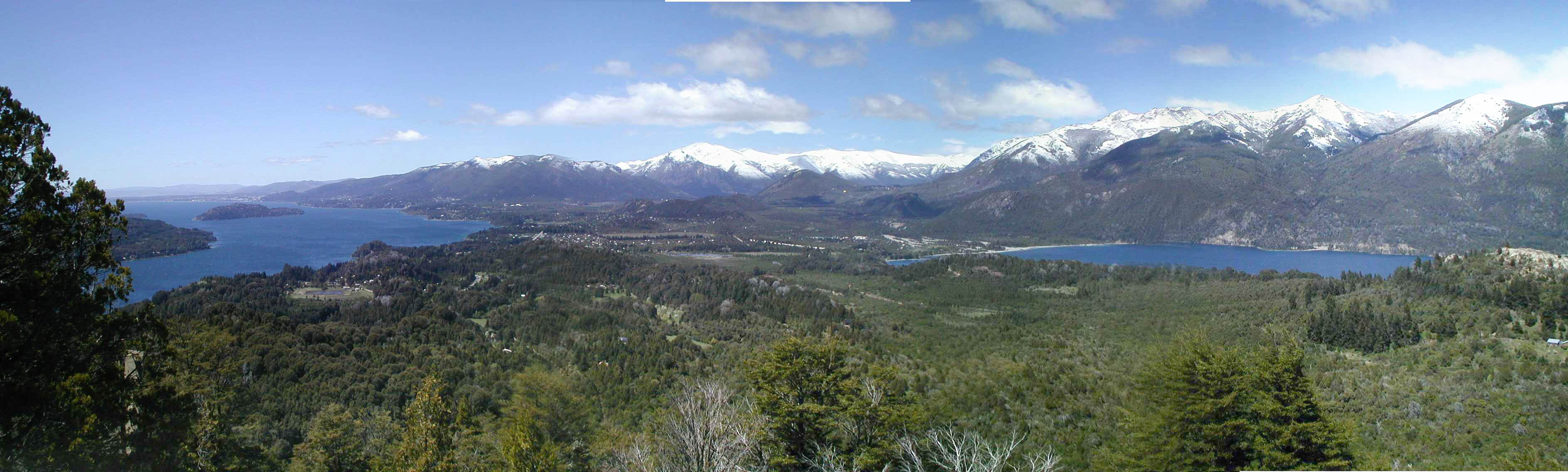 San Carlos de Bariloche on the shore of the Nahuel Huapi [lake]. Taken by xmort in November 2003